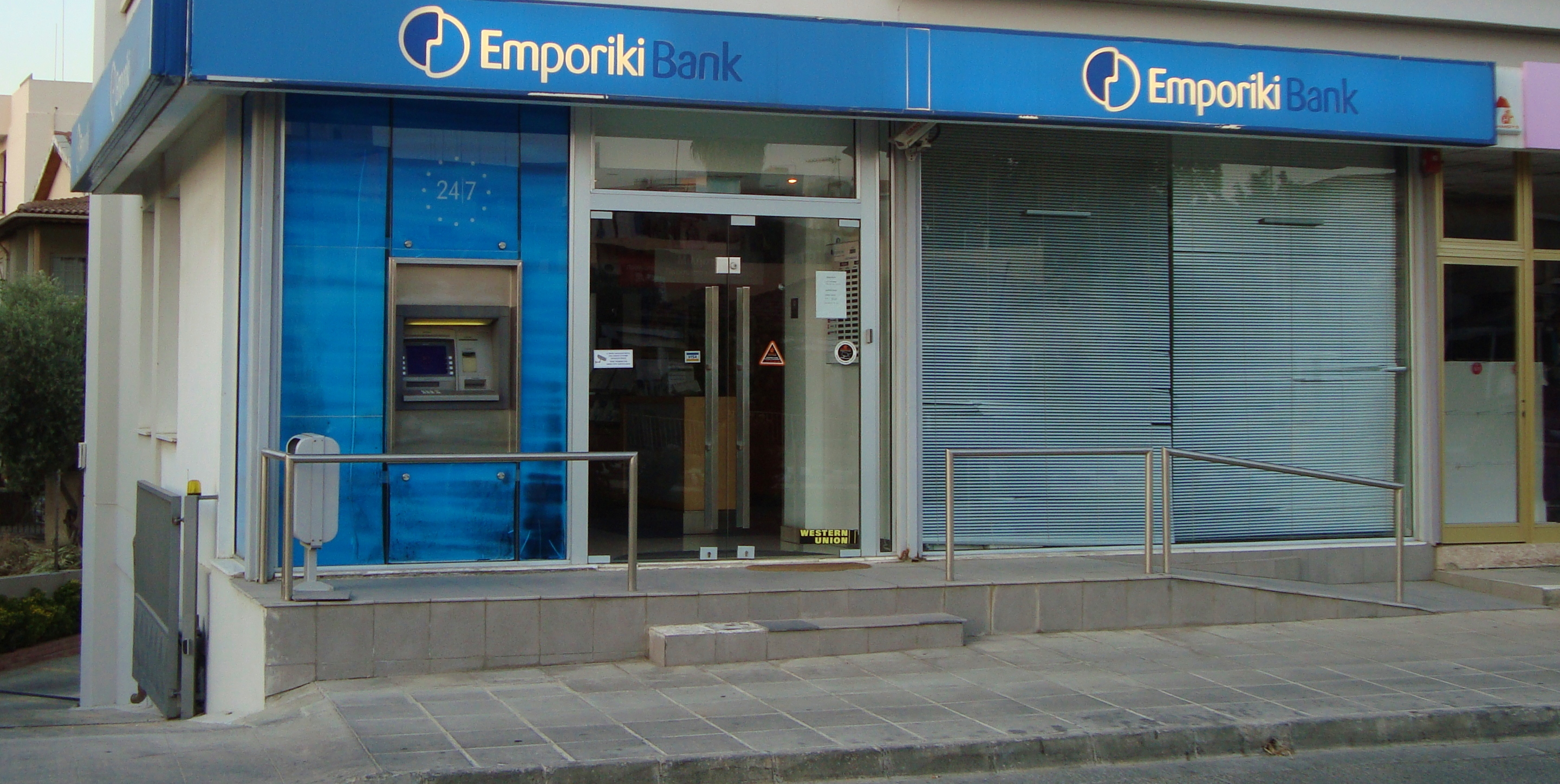 Emporiki bank shop in Larnakos Avenue in Nicosia Republic of Cyprus